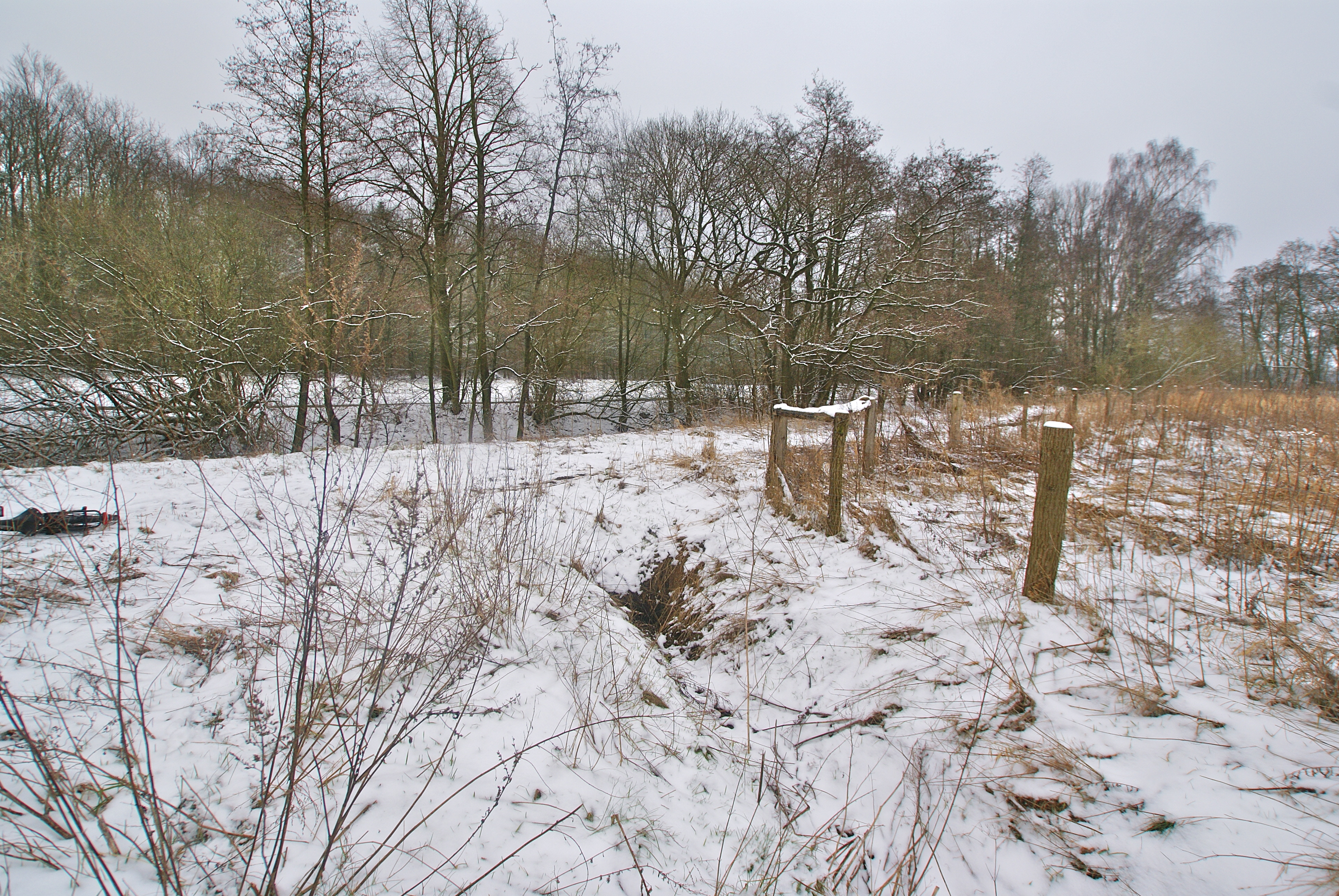 Hamburg (Schnelsen), Germany: The river Roethmoorgraben disappears under the footpath before it joins the river Kollau